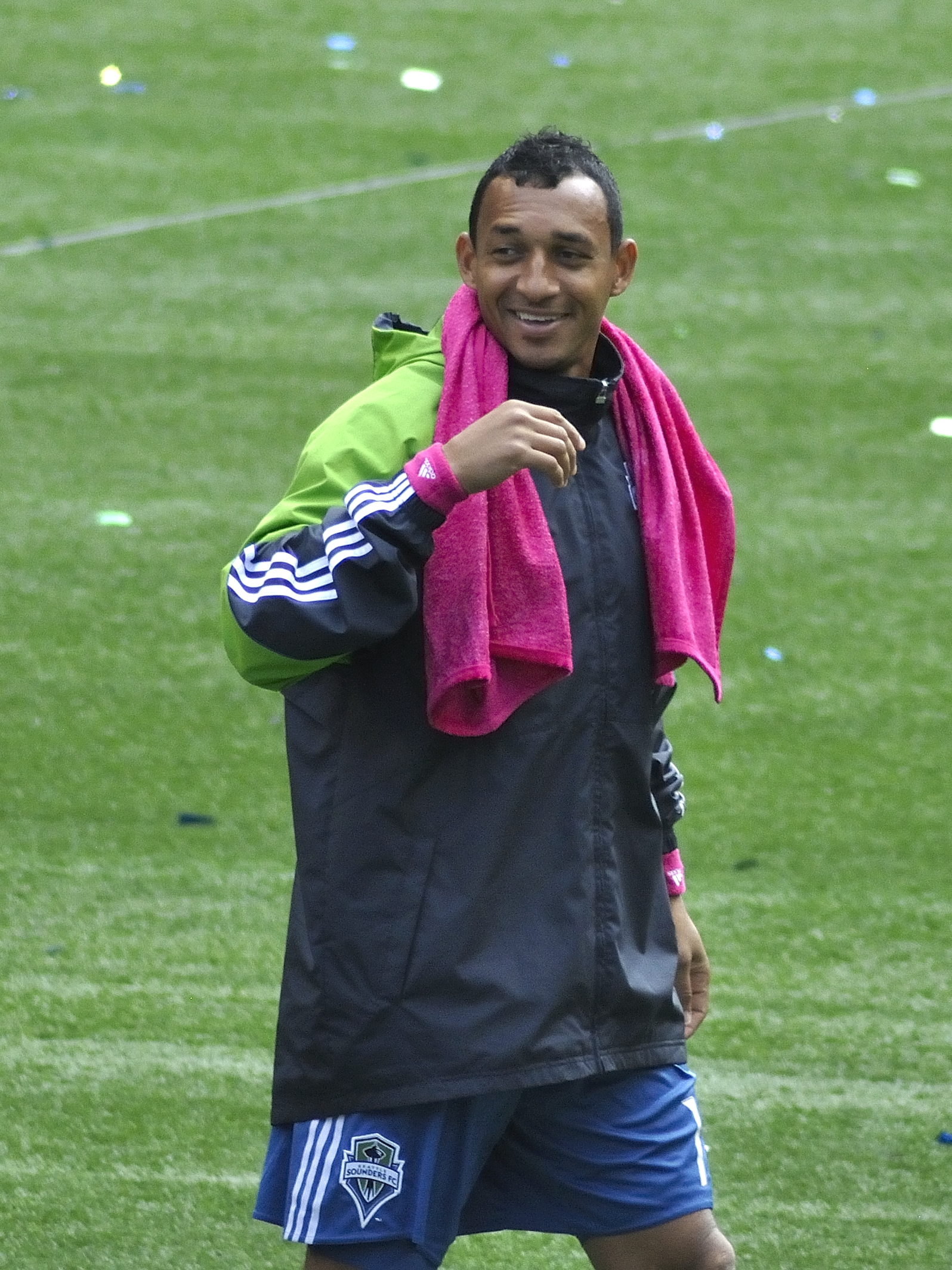 Tyrone Marshall, playing for Seattle Sounders FC